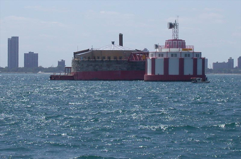 Carter Harrison Crib, Chicago, external photo from the West. Photo by Richard C. Drew.